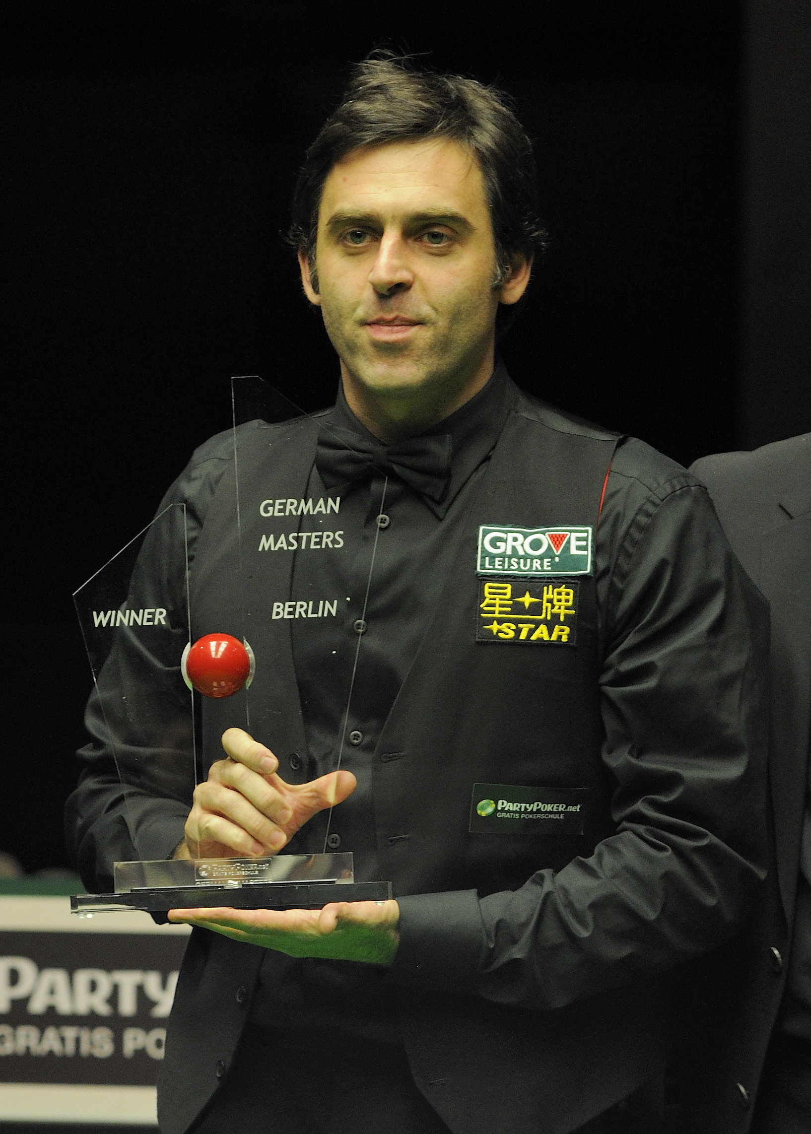 Picture taken in Berlin during the Snooker German Masters in 2011. Ronnie O’Sullivan.